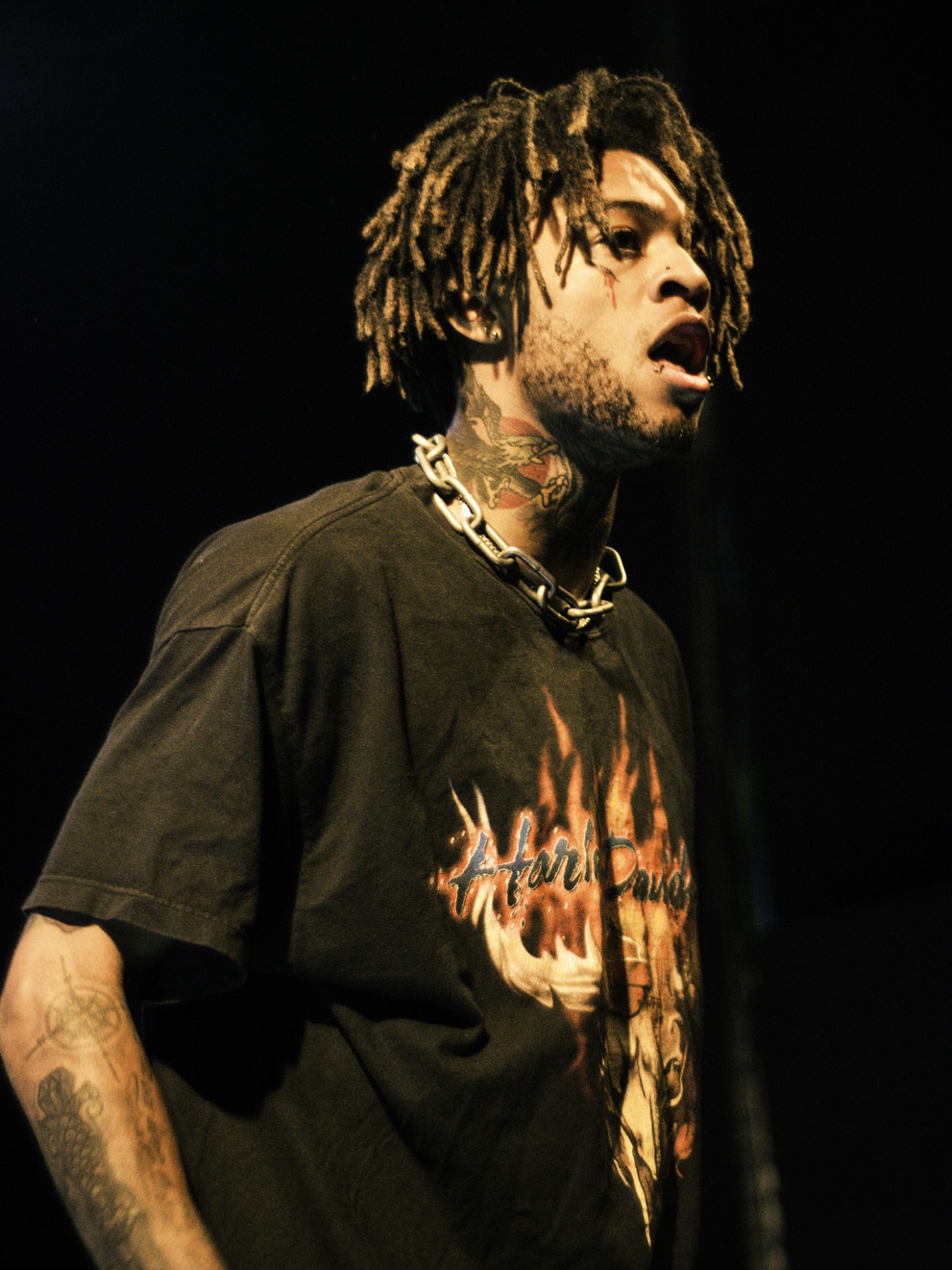 Scardlxrd - Cool Stage - Madrid